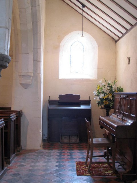 St Mary Magdalene, Tortington, Sussex - South aisle